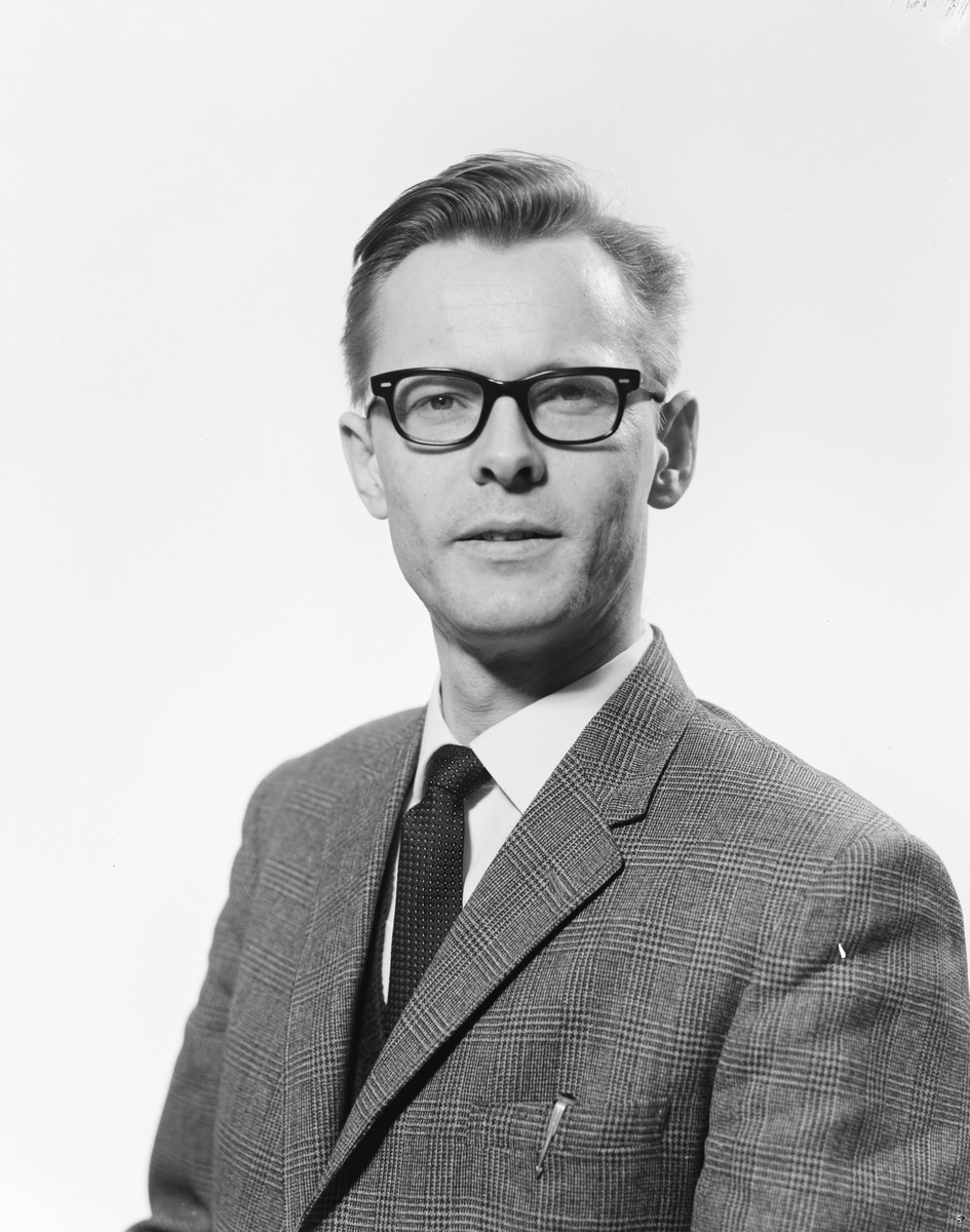 Arkeolog Axel Seeberg.. DigitaltMuseum. Retrieved on 25.11 2014.